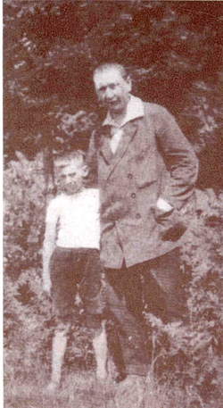 Jaroslav Hasek with son, 1921